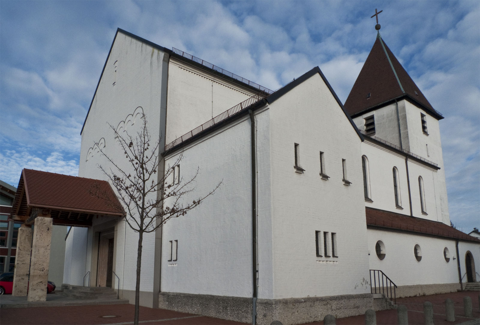 Zu den heiligen vierzehn Nothelfern, München